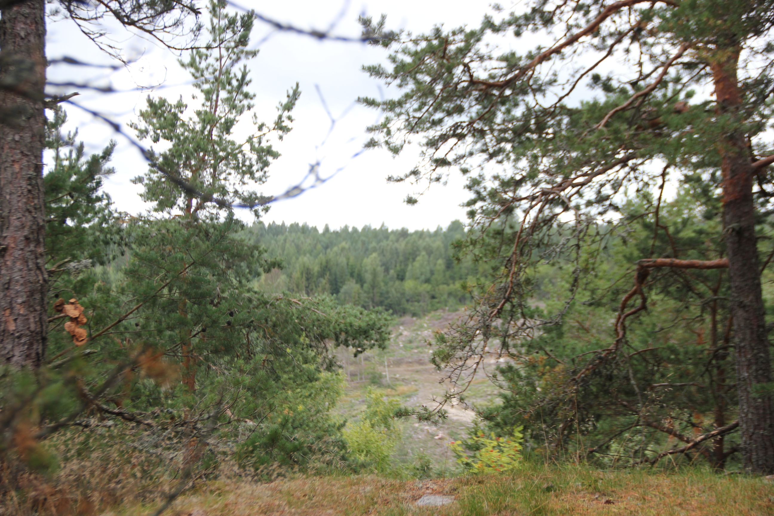 Pöykäri Hillfort in Karjalohja, view to south-west, Lohja, Finland